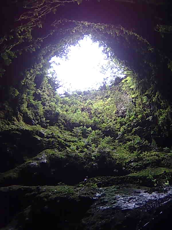 Algar do Carvão, lava tube, Terceira island, Açores